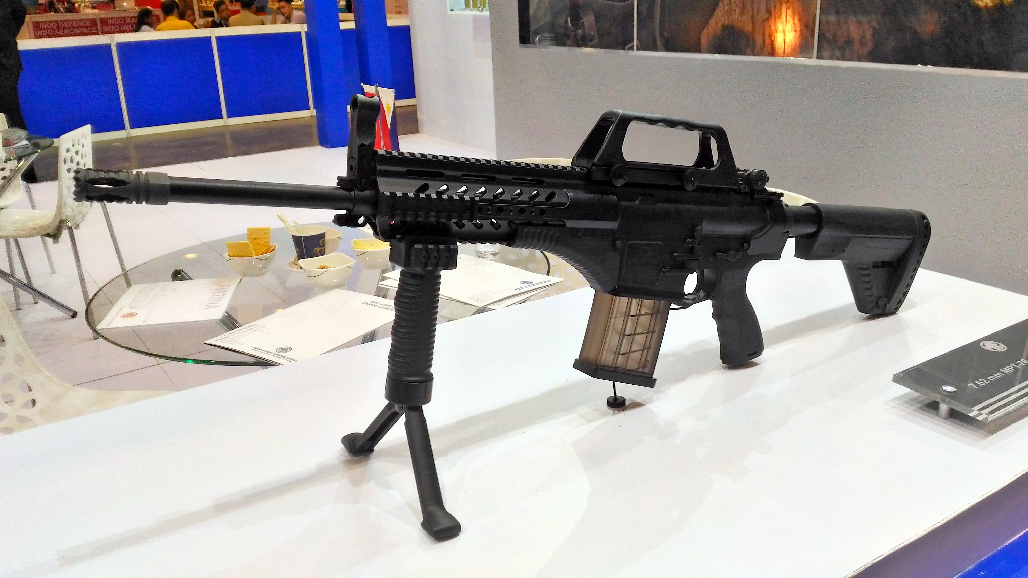 A 7.62 x 51 mm caliber MPT-76 Assault Rifle made by the Turkish company, MKE. Photo taken during the 2016 Asian Defence and Security (ADAS) Trade Show at the World Trade Center in Pasay, Metro Manila